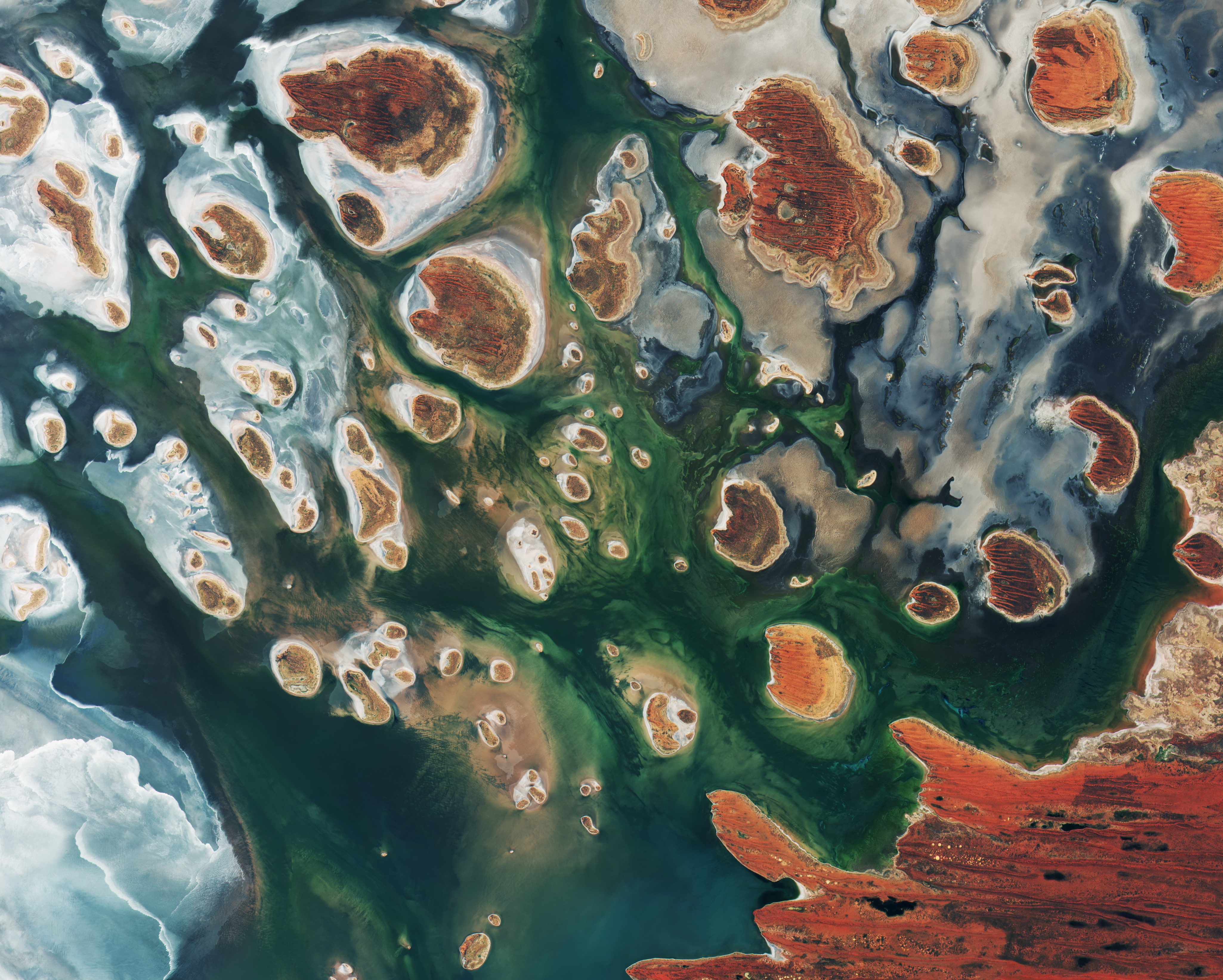 Lake Mackay, Australia, by Copernicus Sentinel-2B satellite. Brown hills speckle the eastern part of Australia’s Lake Mackay in this satellite image. Located on the border of the states of Western Australia and Northern Territory, the salt lake only sees water after seasonal rainfall – if at all. It is classified as an ephemeral lake, meaning it exists only after precipitation. This is not the same as a seasonal lake, which sees water for longer periods. About half of Australia's rivers drain inland and often end in ephemeral salt lakes. The greens and blues in this image show desert vegetation or algae, soil moisture and minerals – mainly salt. On some of the brown ‘islands’ and on the shore in the lower right, we can see the east–west sand ridges forming lines in the landscape. The lake lies at the edge of the Great Sandy Desert, which covers nearly 285,000 sq km. Roads are scarce in the area, and often frequented by four-wheel drive adventurers. Roads include the Canning Stock Route about 300 km to the west of the image, or Tanami Track connecting Australia’s Stuart Highway to the Great Northern Highway around 300 km to the east.